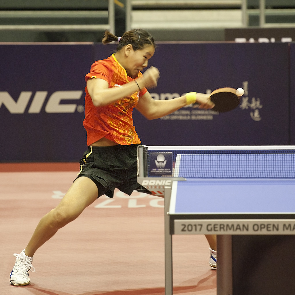 ITTF World Tour 2017 German Open, Magdeburg, Germany, 7 Nov 2017 - 12 Nov 2017, Gu Yuting